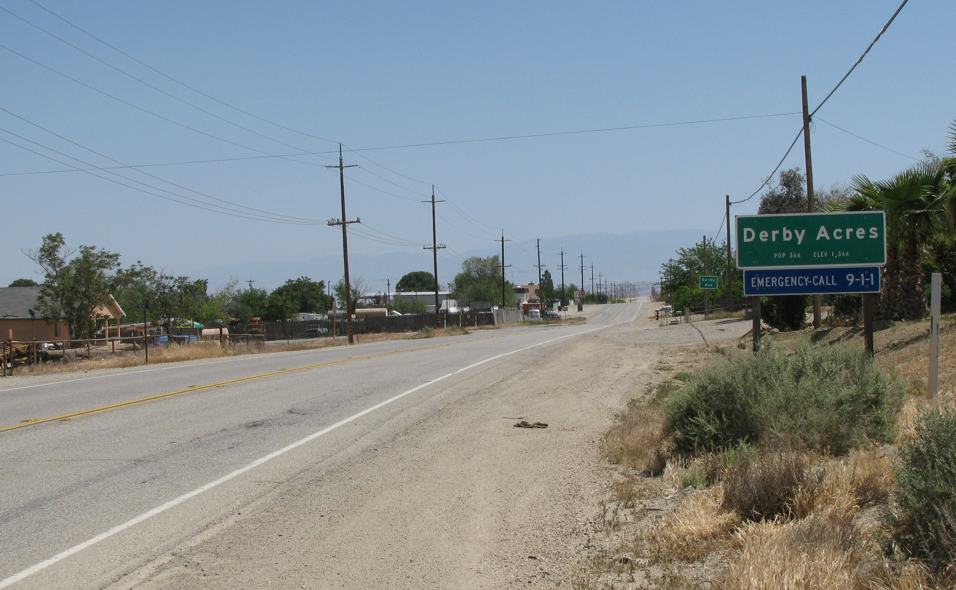 Shot of town sign on Highway 33, by self: GFDL: April 26, 2009